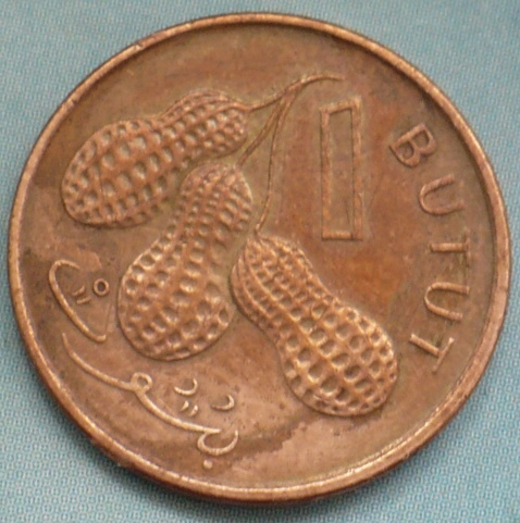 Gambia 1 butut.